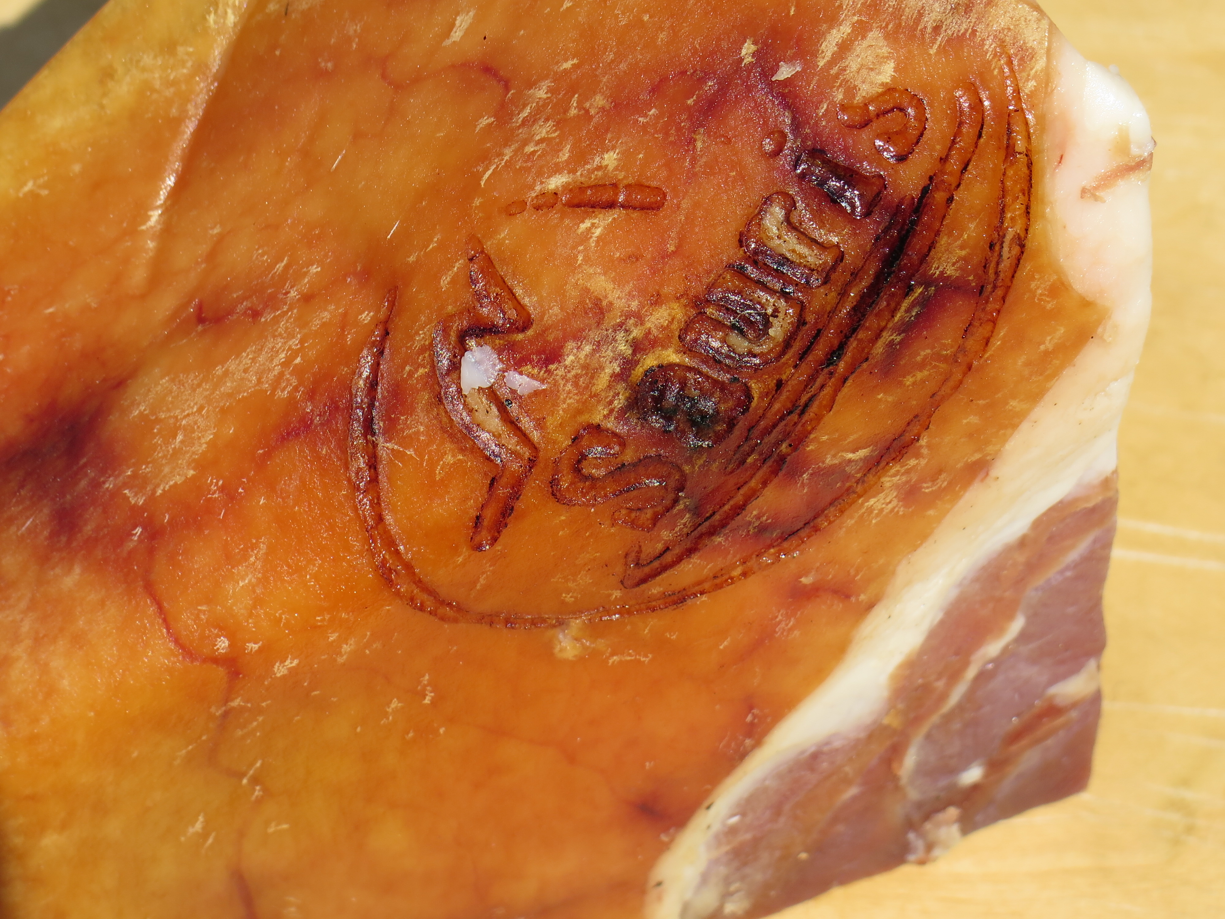 Embossed logo on the sauris ham